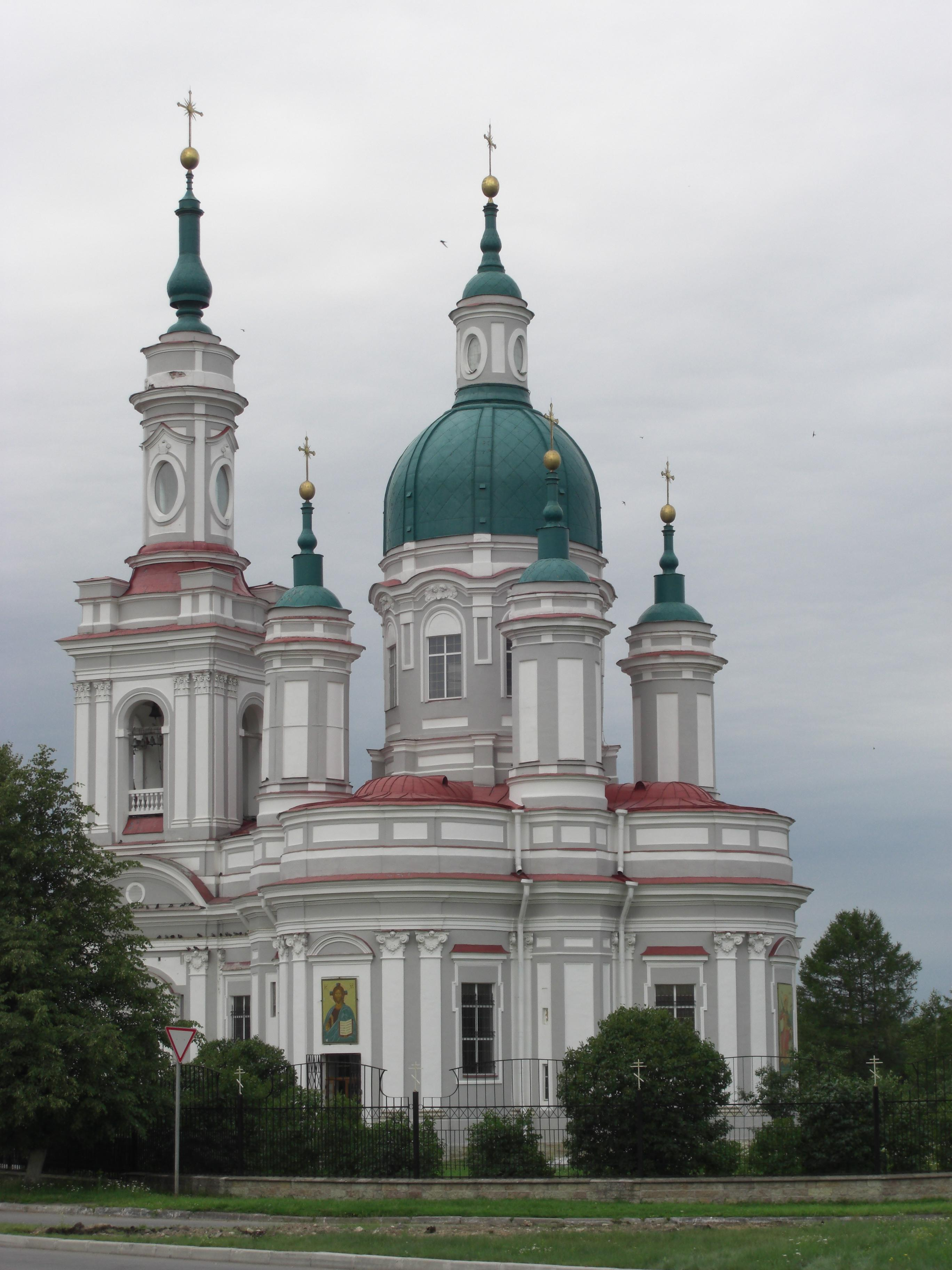 St. Catherine Cathedral in Yamburg (1764-1782) by Antonio Rinaldi.